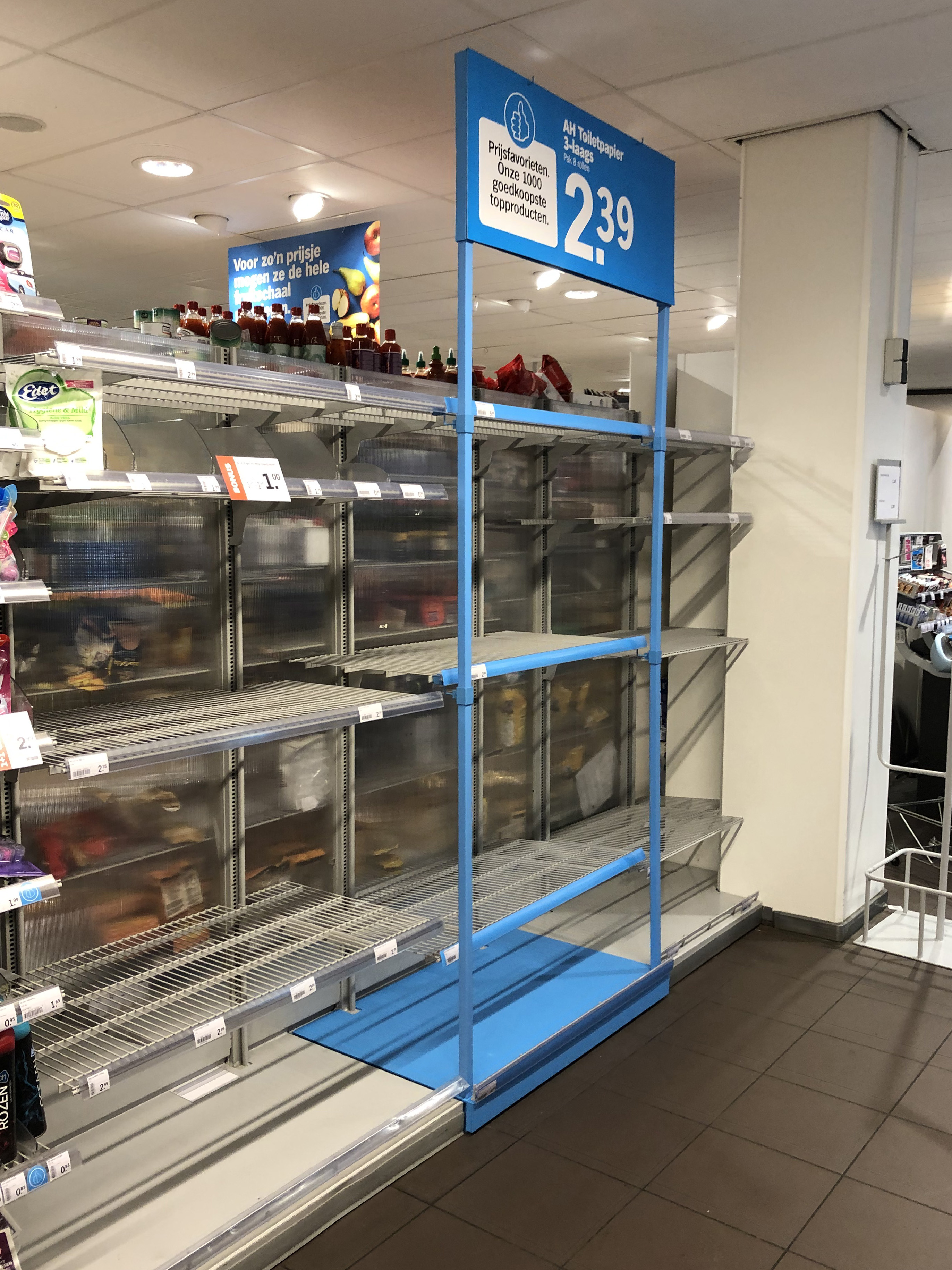 Empty shelves where usually toilet paper could be found in a supermarket in Amsterdam, the Netherlands, during the coronavirus pandemic.